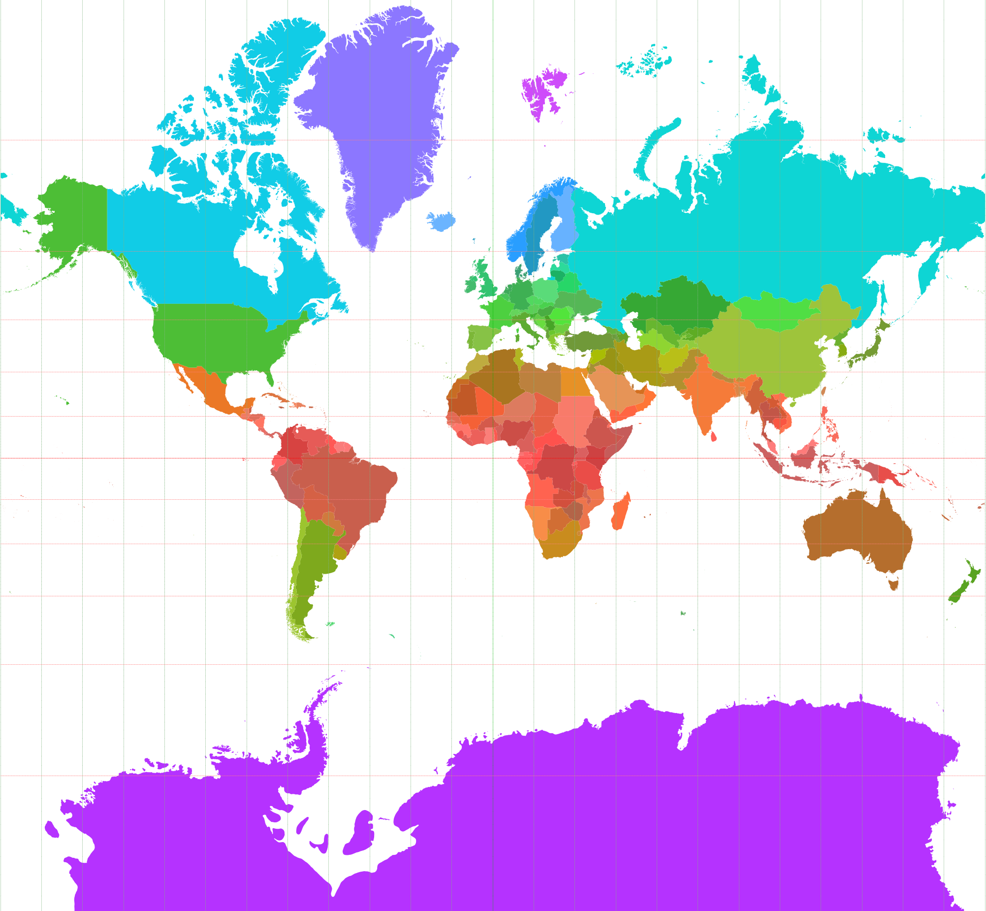 Political map of the World in Mercator projection with colours that vary with latitude.